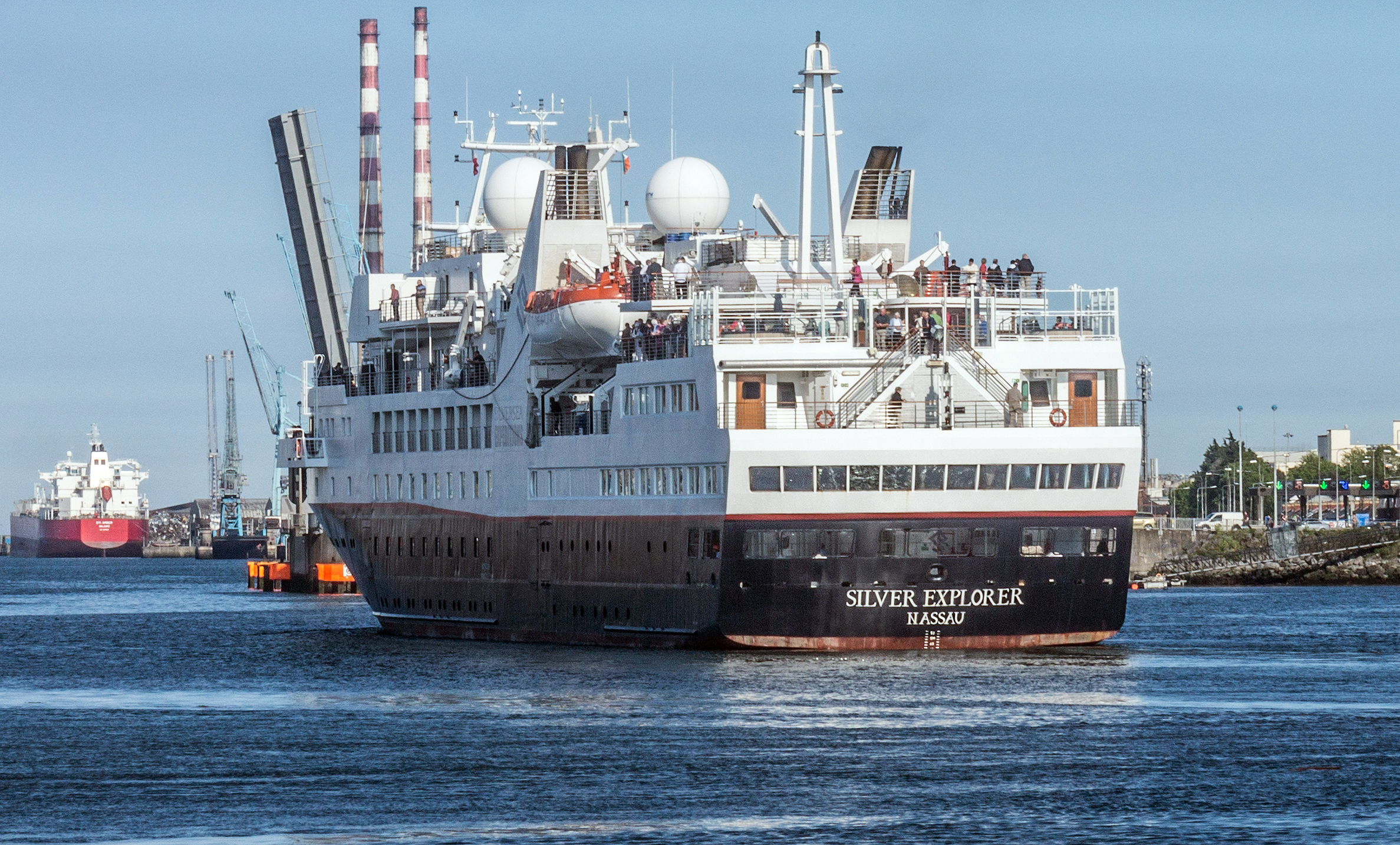 Cruise ship Silver Explorer in Dublin